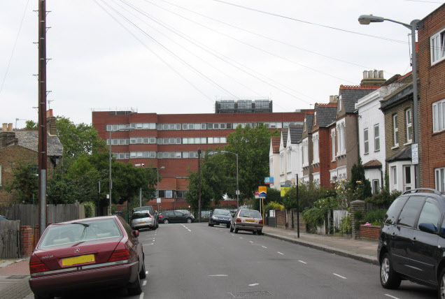 St George's Hospital, Tooting A view of the hospital buildings from Aldis Street.